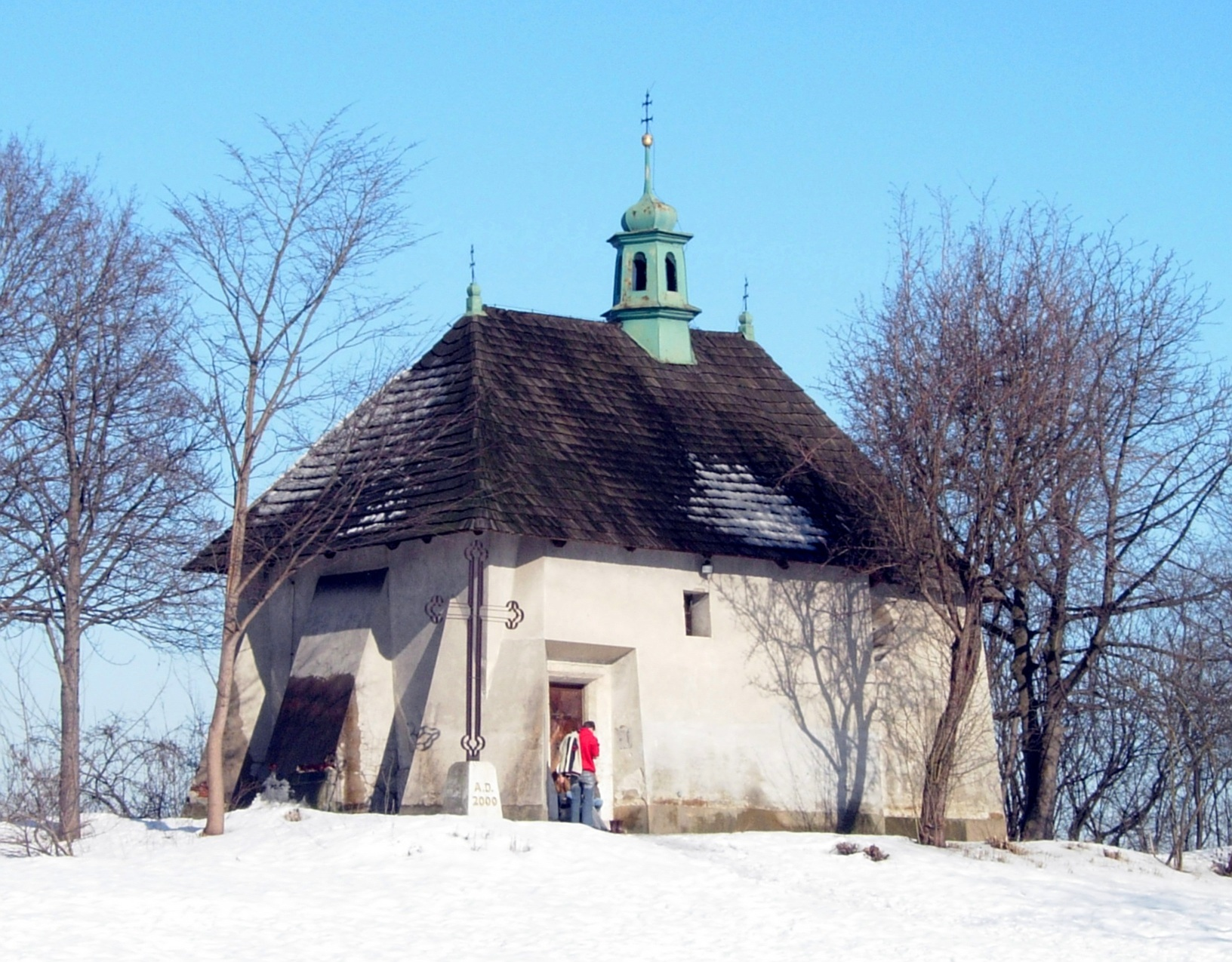 Saint Benedict church in Kraków